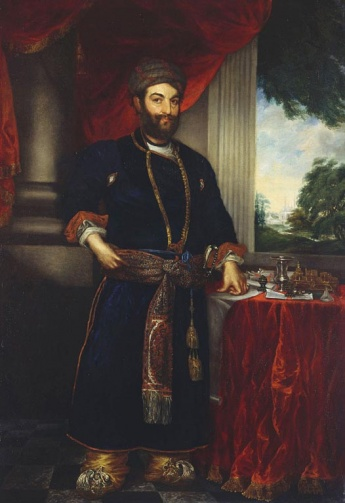 Saadat Ali Khan II (c1752-1814)